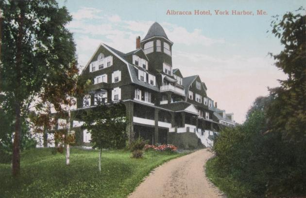 Albracca Hotel, York Harbor, Maine; from a 1911 postcard published by Valentine & Sons, New York. Designed by E. B. Blaisdell, the hotel burned in 1924.